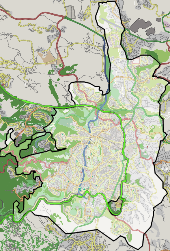 Map of Jerusalem This map of Serock was created from OpenStreetMap project data, collected by the community. This map may be incomplete, and may contain errors. Don't rely solely on it for navigation.